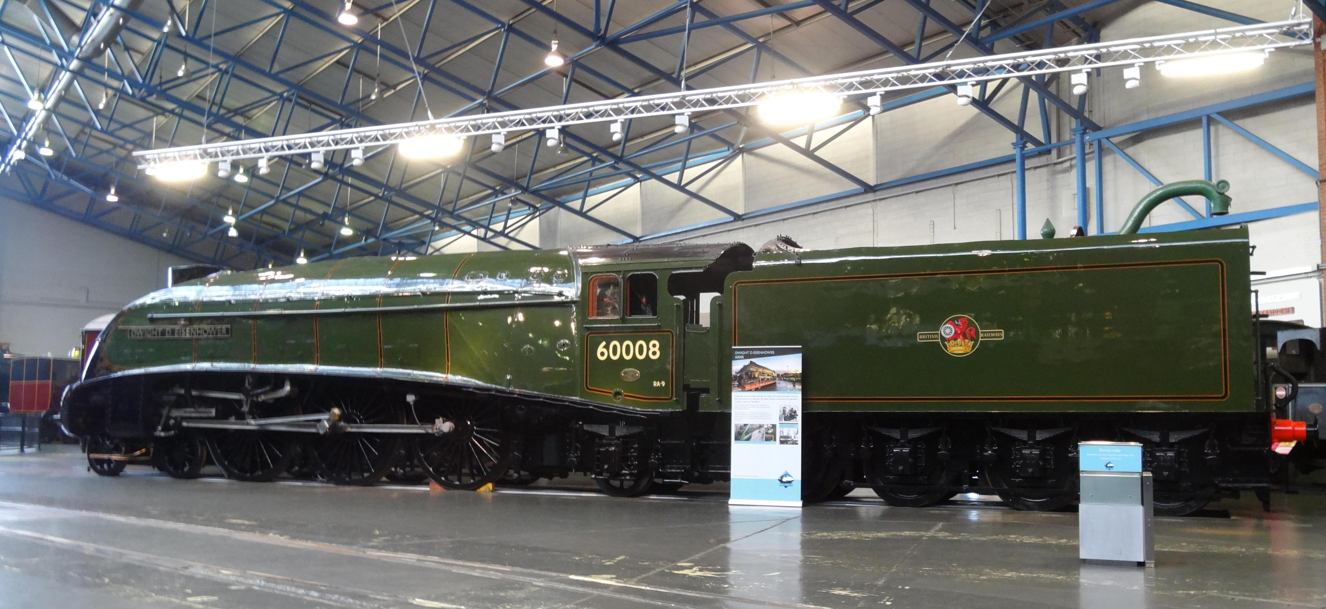 National RailLNER Class A4 4496 Dwight D Eisenhower in York